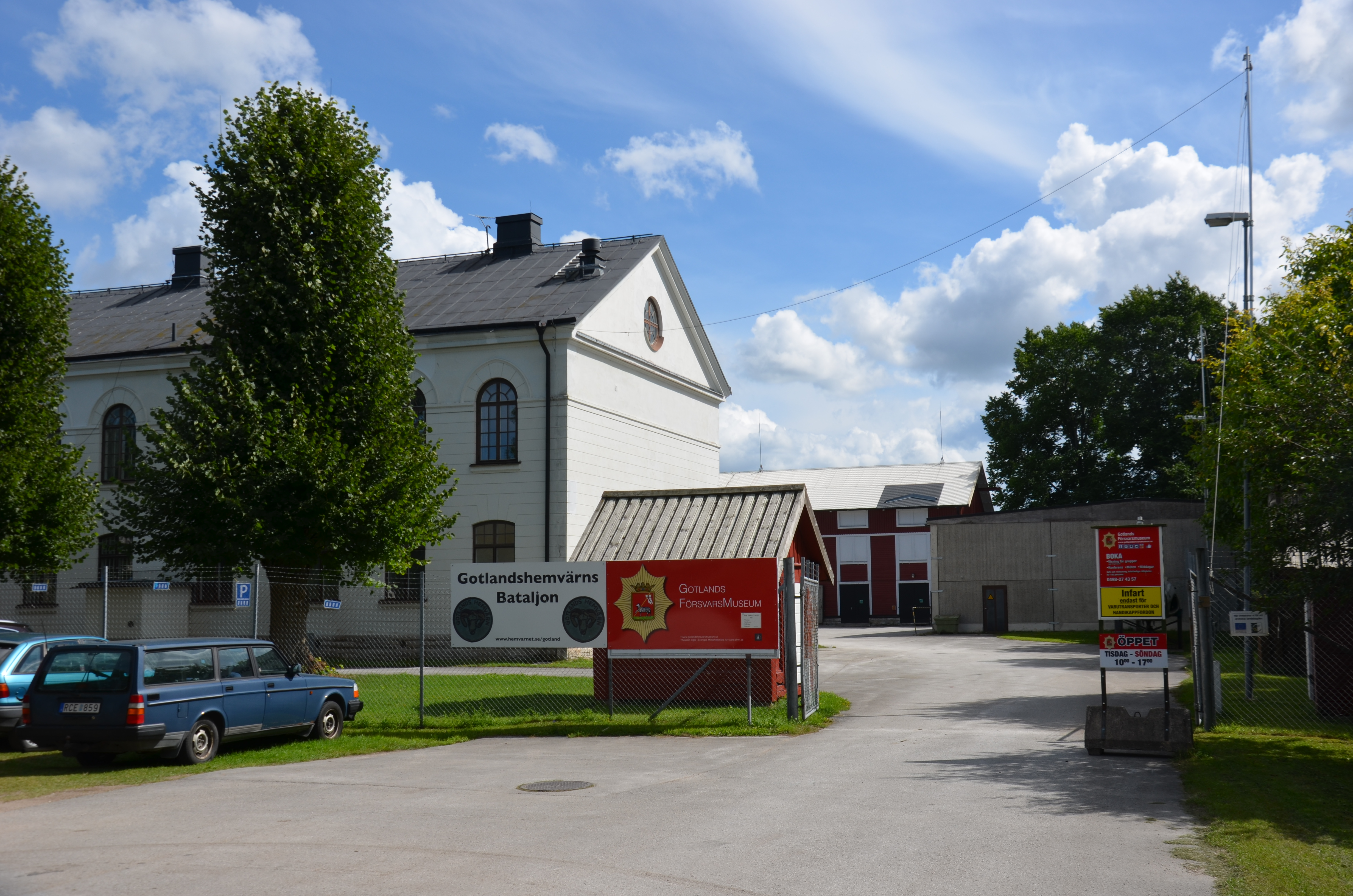 Gotlands försvarsmuseum i Tingstäde